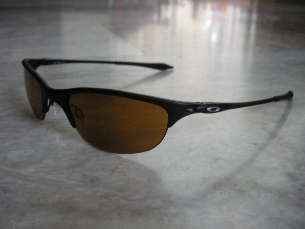 Author's own creation. Oakley Half Wire gold iridium lens, carbon black frame